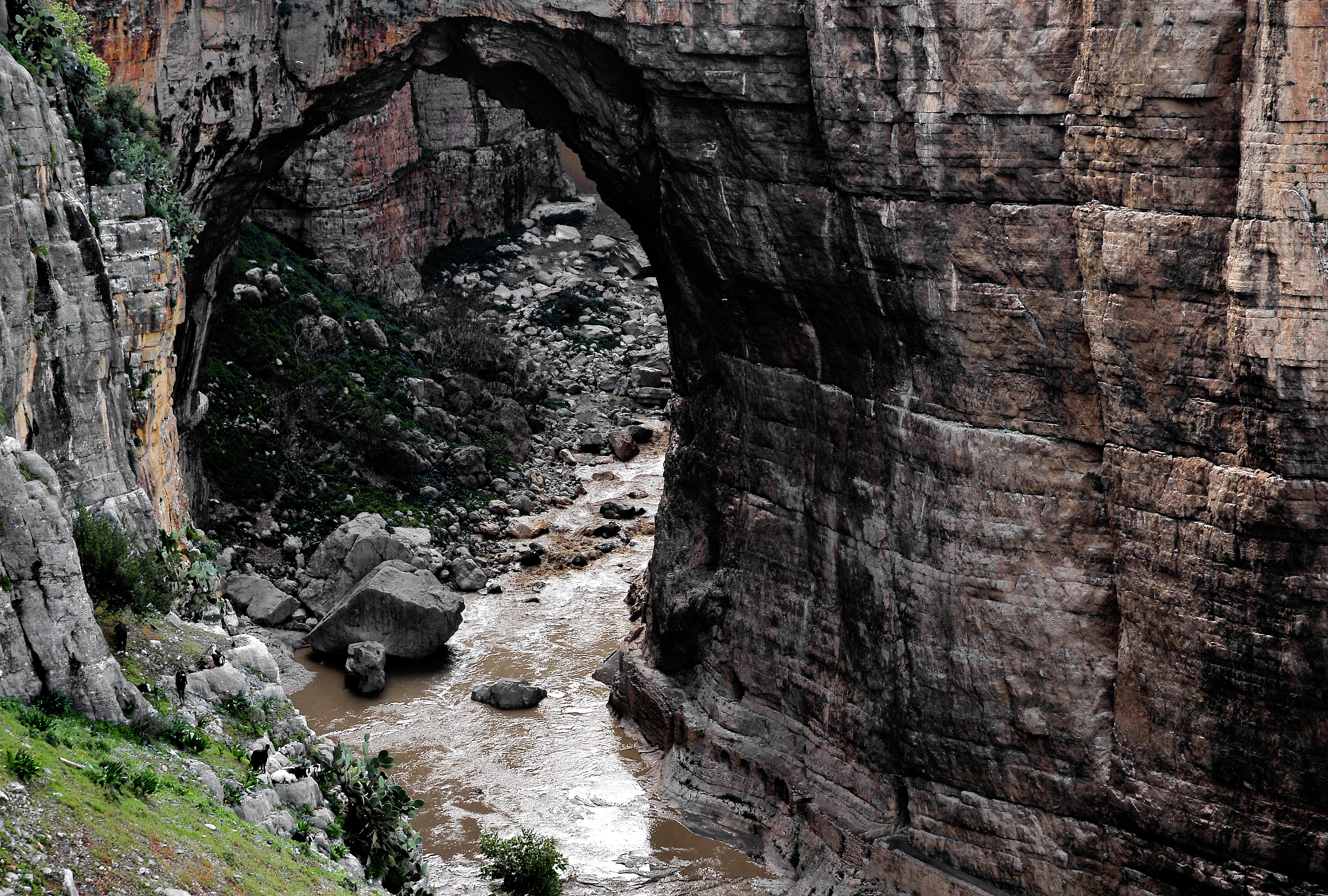 Natural bridge over the Rhummel River. Constantine, Algeria